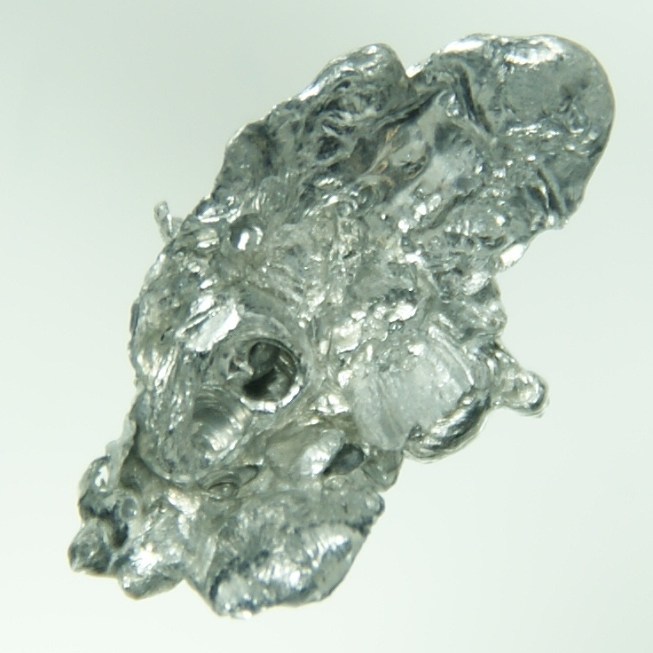 Cadmium is a bluish silvery, soft, ductile metal, which is a by-product in the production of zinc and other metals. It has a bad reputation, because it is in virtually every form very toxic and harmful to the environment. Its usage therefore is declining, an important application are nickel-cadmium batteries, which, when defect, have to be disposed properly.